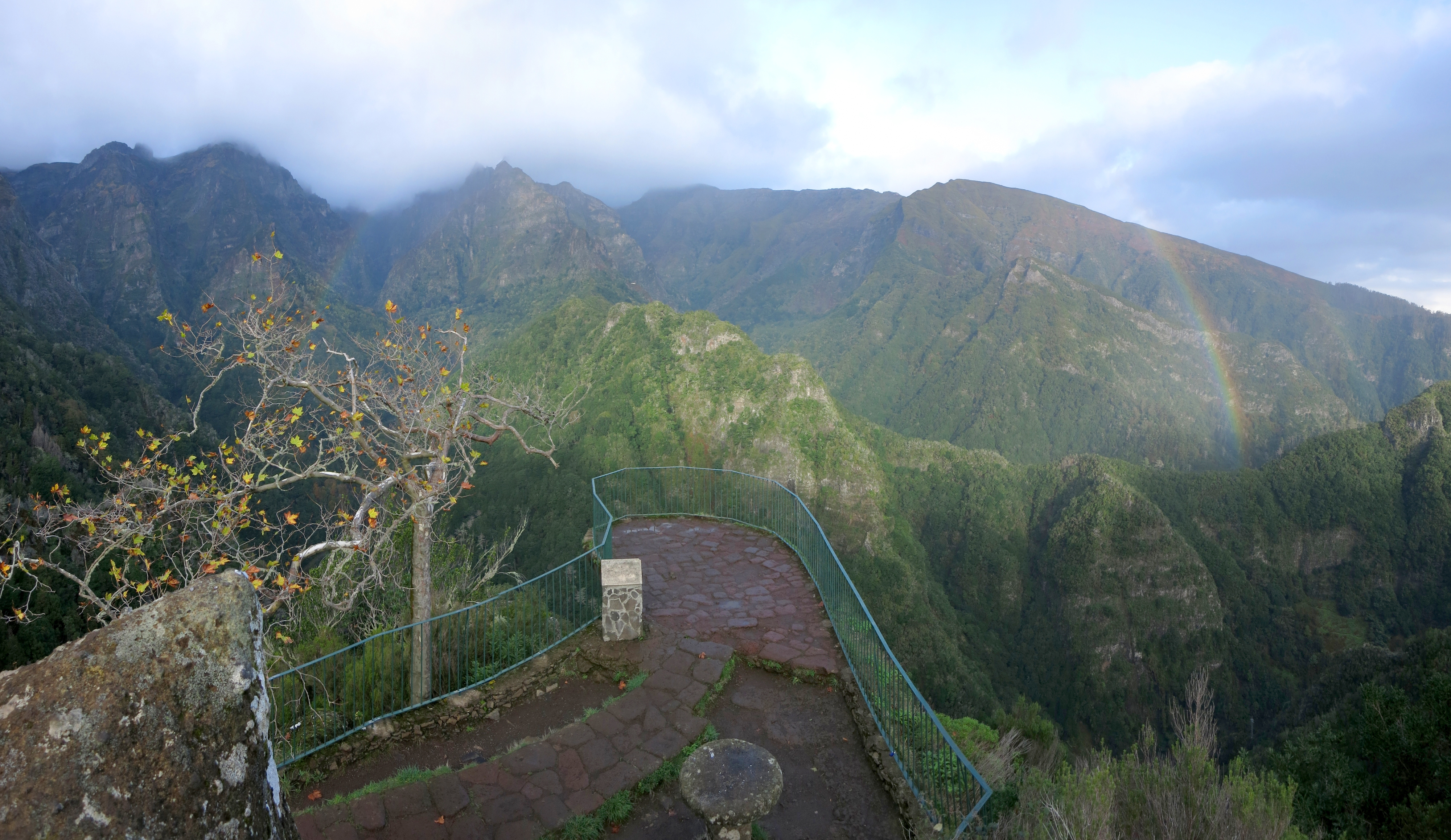 View from Miradouro dos Balcoes, Madeira